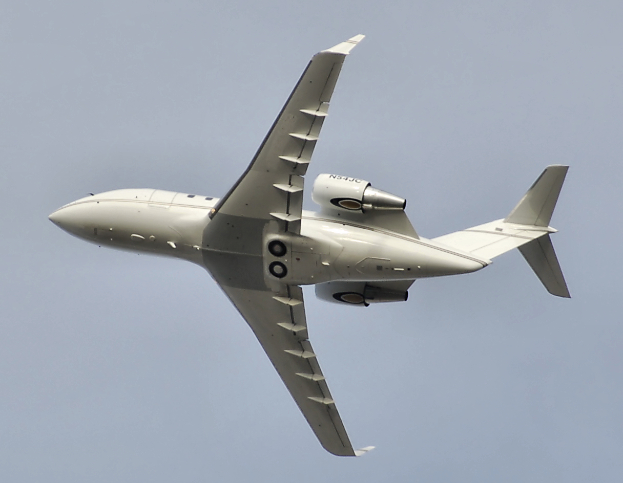 Canadair 601 Challenger (N54JC) takes off from London Heathrow Airport, England. (The full description of this aircraft is “Canadair CL-600-2A12 Challenger 601).